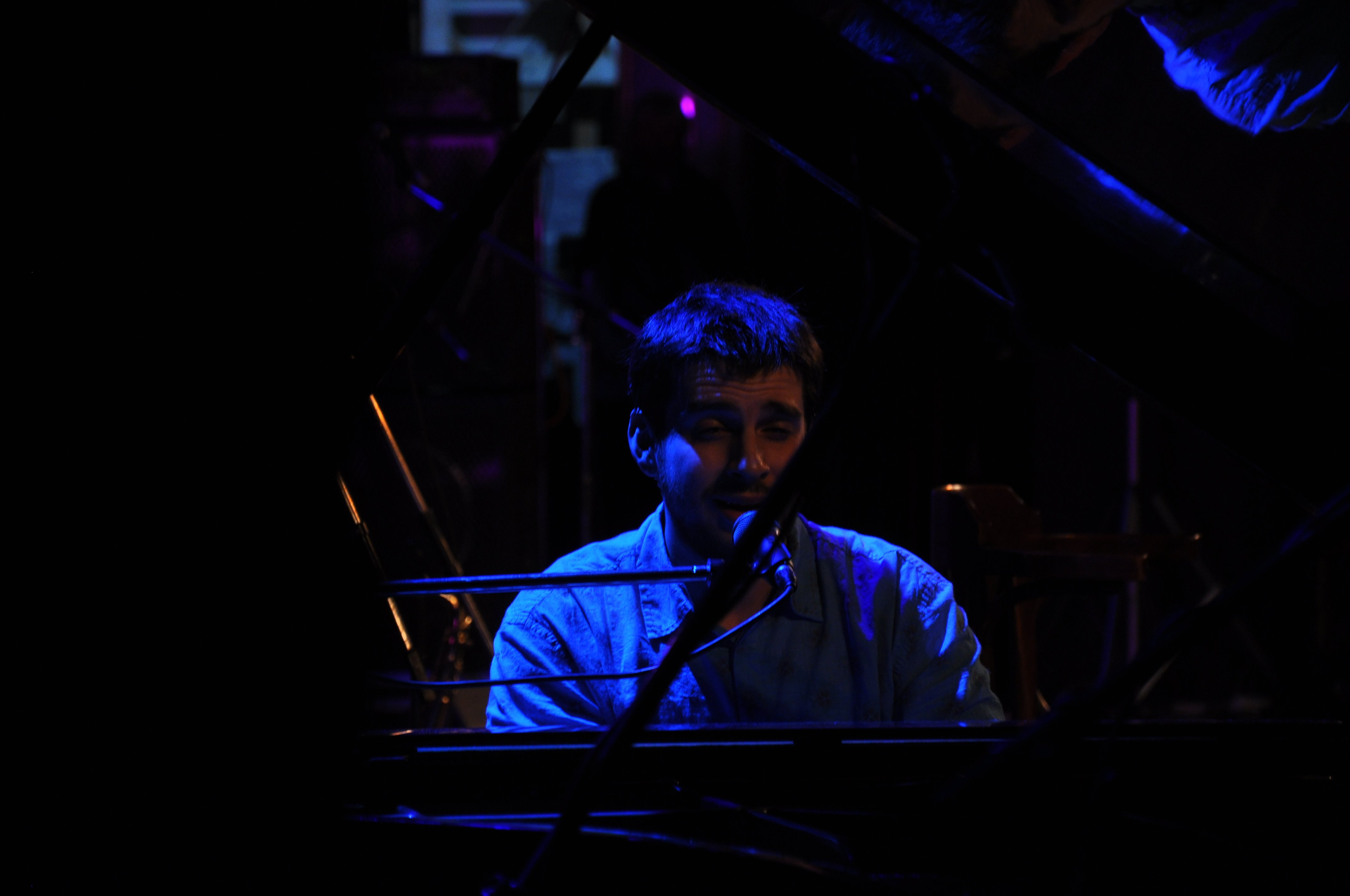 Peter Nalitch